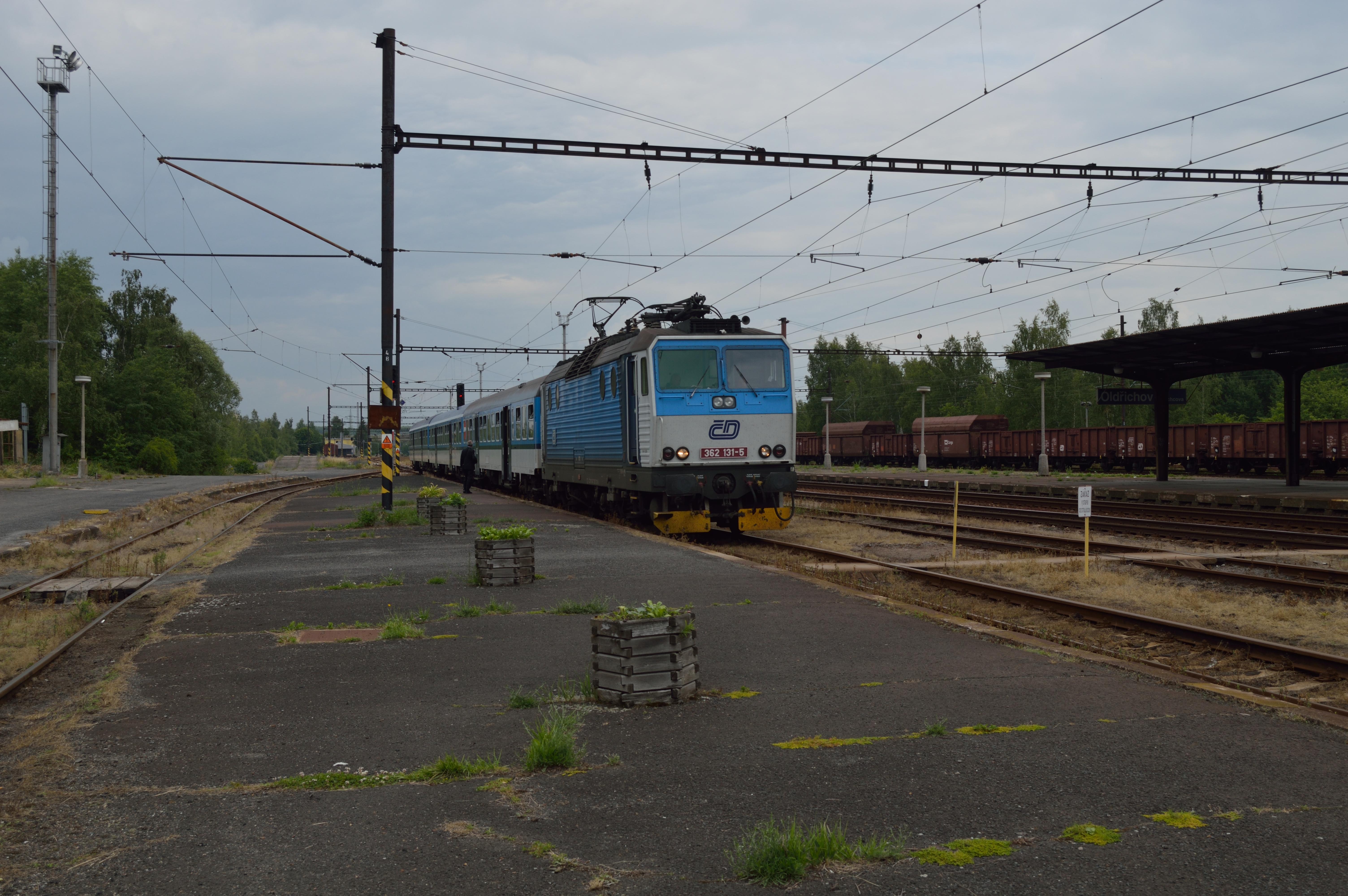 362.131 hauling train Sp1964, 13:46 Ústí nad Labem hl.n. to Cheb made an unscheduled stop here at Oldřichov u Duchcova on 25 June 2015. This was due to overhead line problems further ahead at Bilína and a decision was taken to divert the train via Louka u Litvínova missing out several booked stops. This I only found out after thanks to a very handy mobile phone app which is updated with real time running for each train.